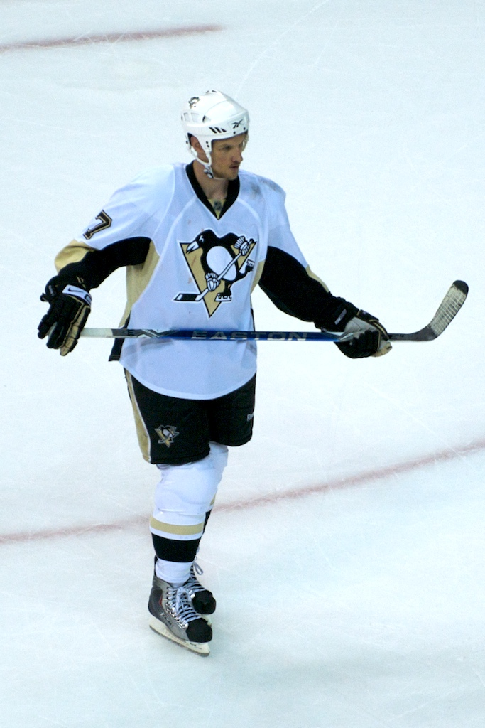 Mark Eaton of the Pittsburgh Penguins during Game 1 of the 2009 Conference Semifinals.